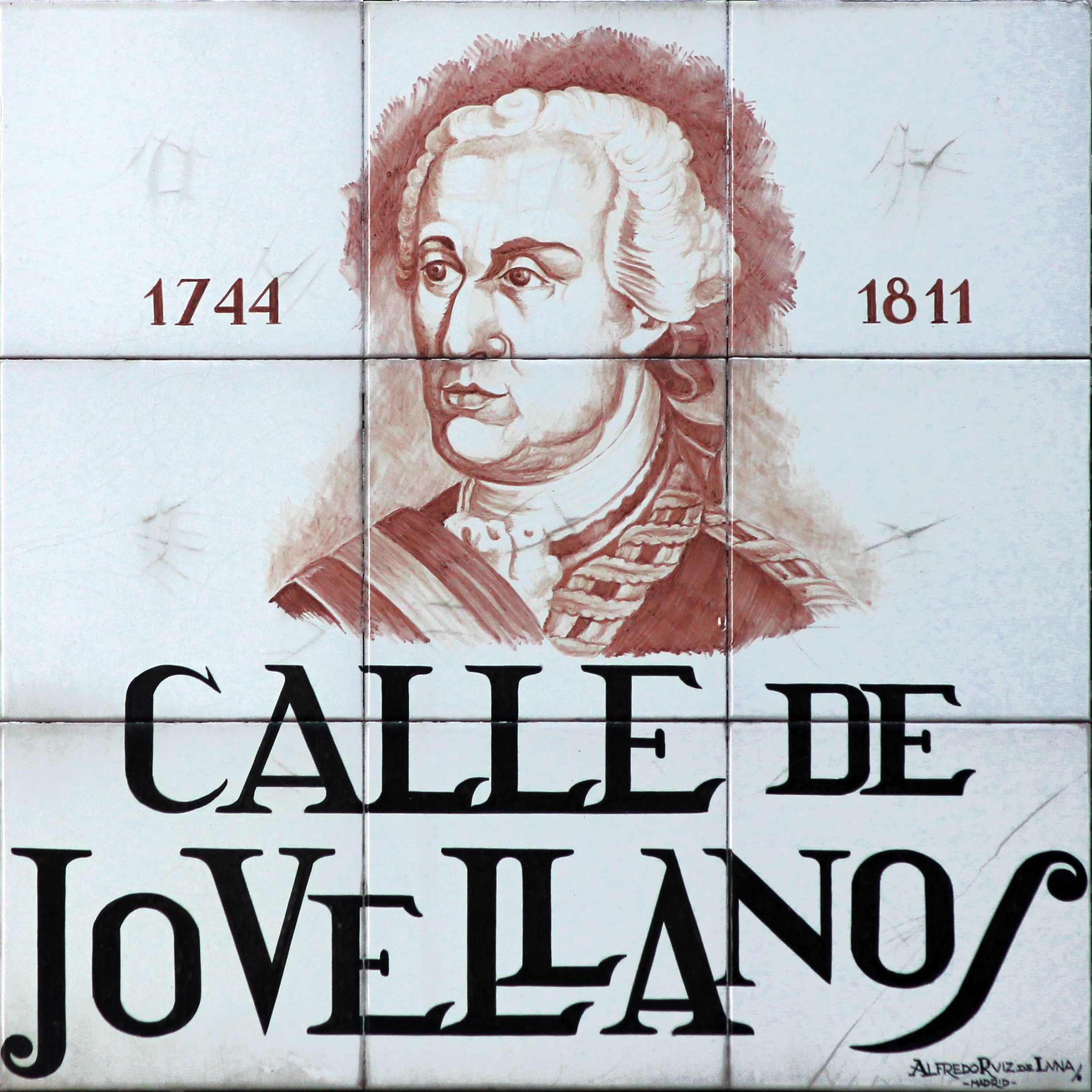 Sign of Calle de Jovellanos (street) in Madrid (Spain).